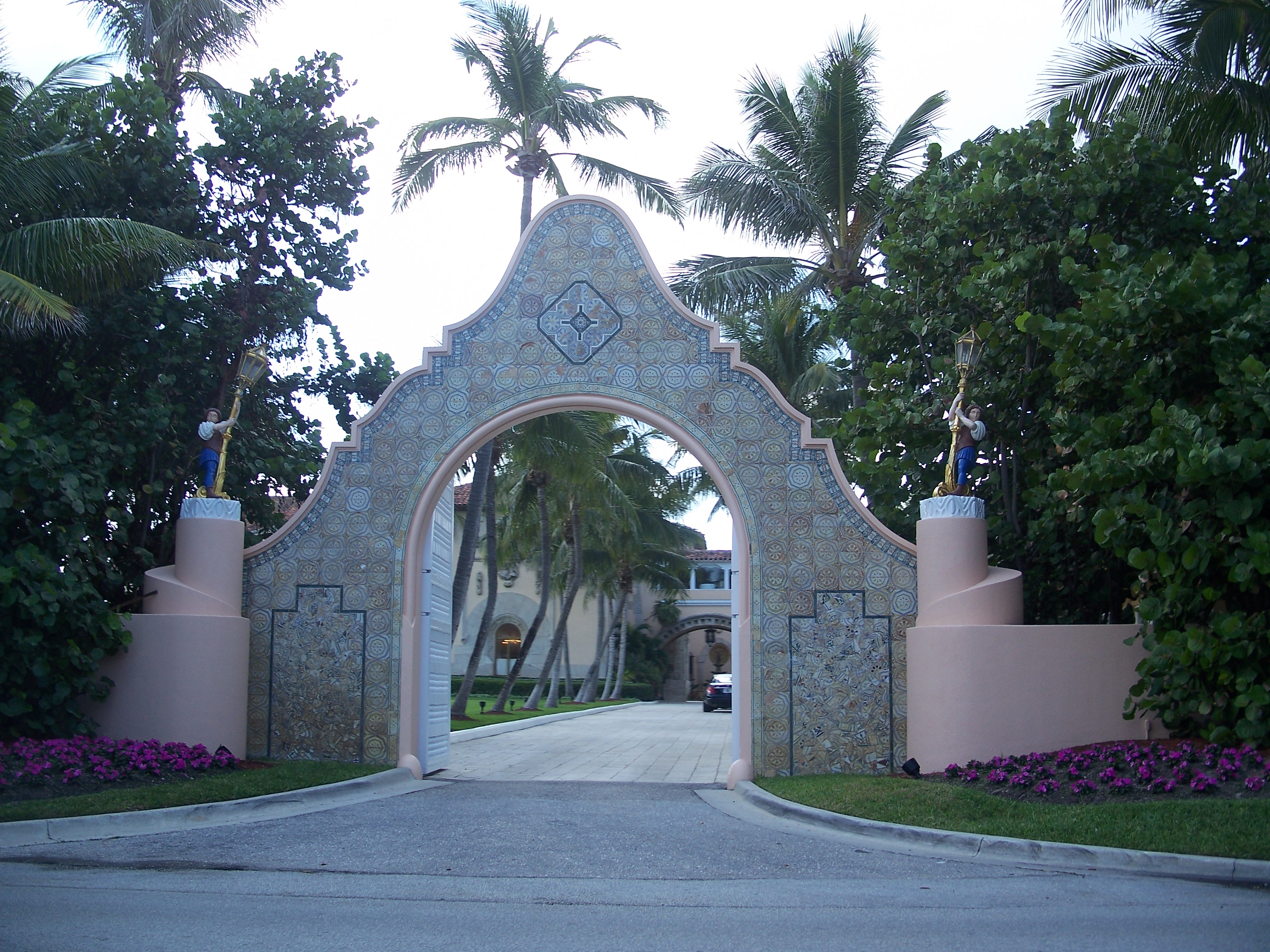 West Palm Beach, Florida: Mar-A-Lago: Entrance